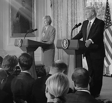 Donald Trump joint press-conference with Theresa May at the White House